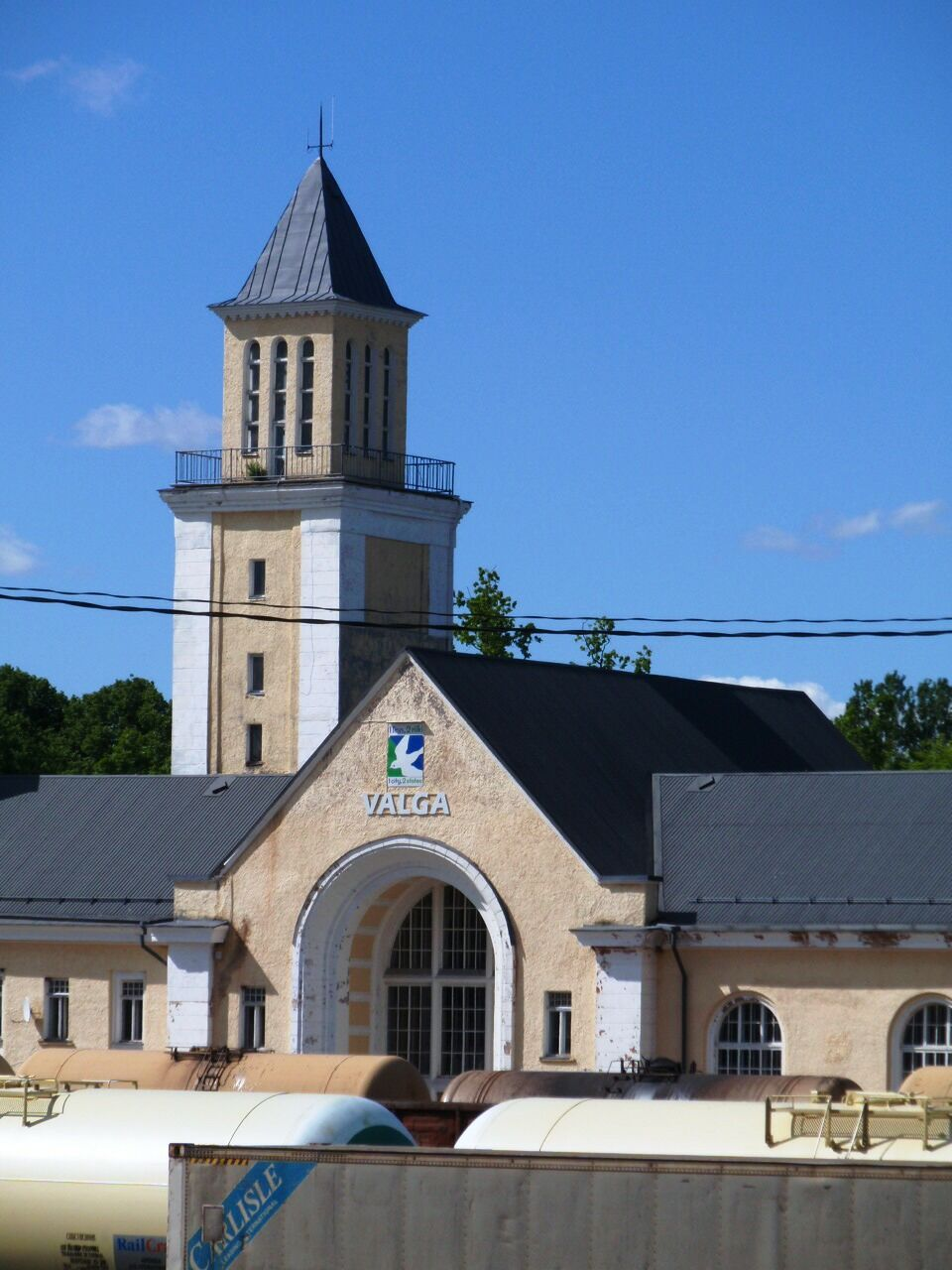 Valga railway station